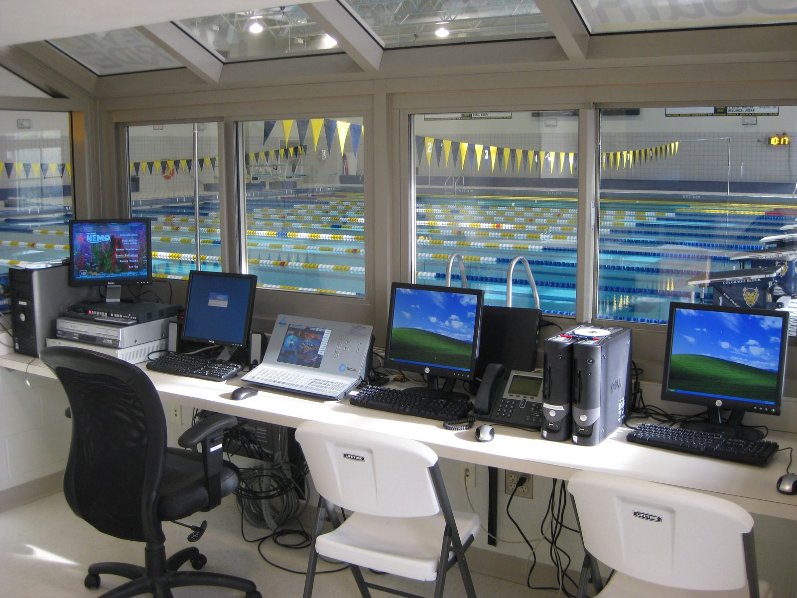 The timing office at the new Grosse Pointe South pool.